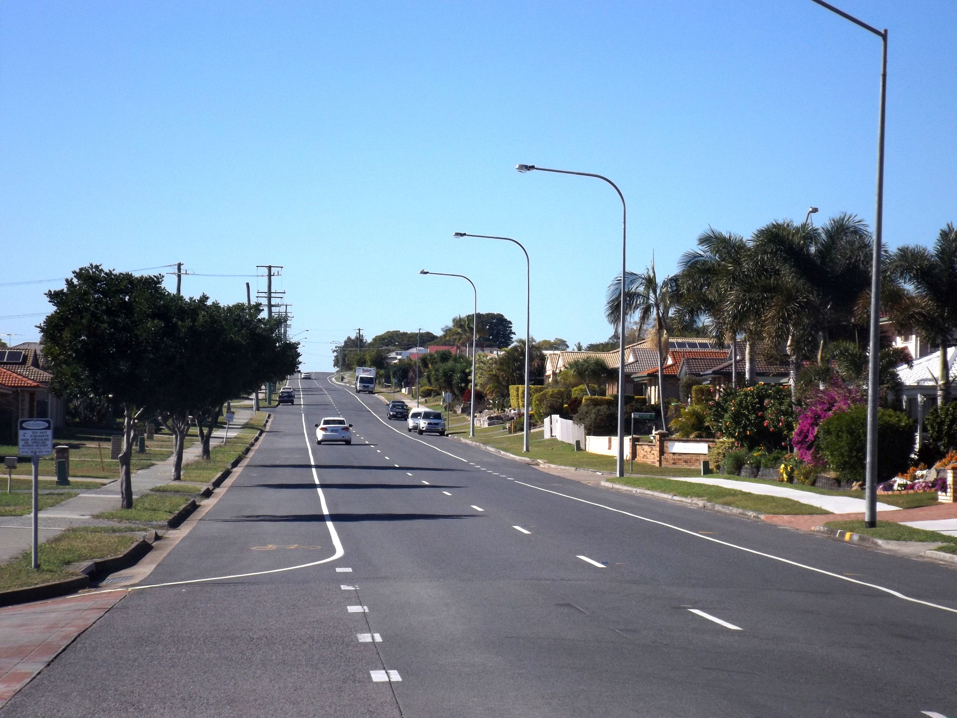 Photo of Edwards Street at Raceview (left) and Flinders View (right) in City of Ipswich, Queensland, Australia.